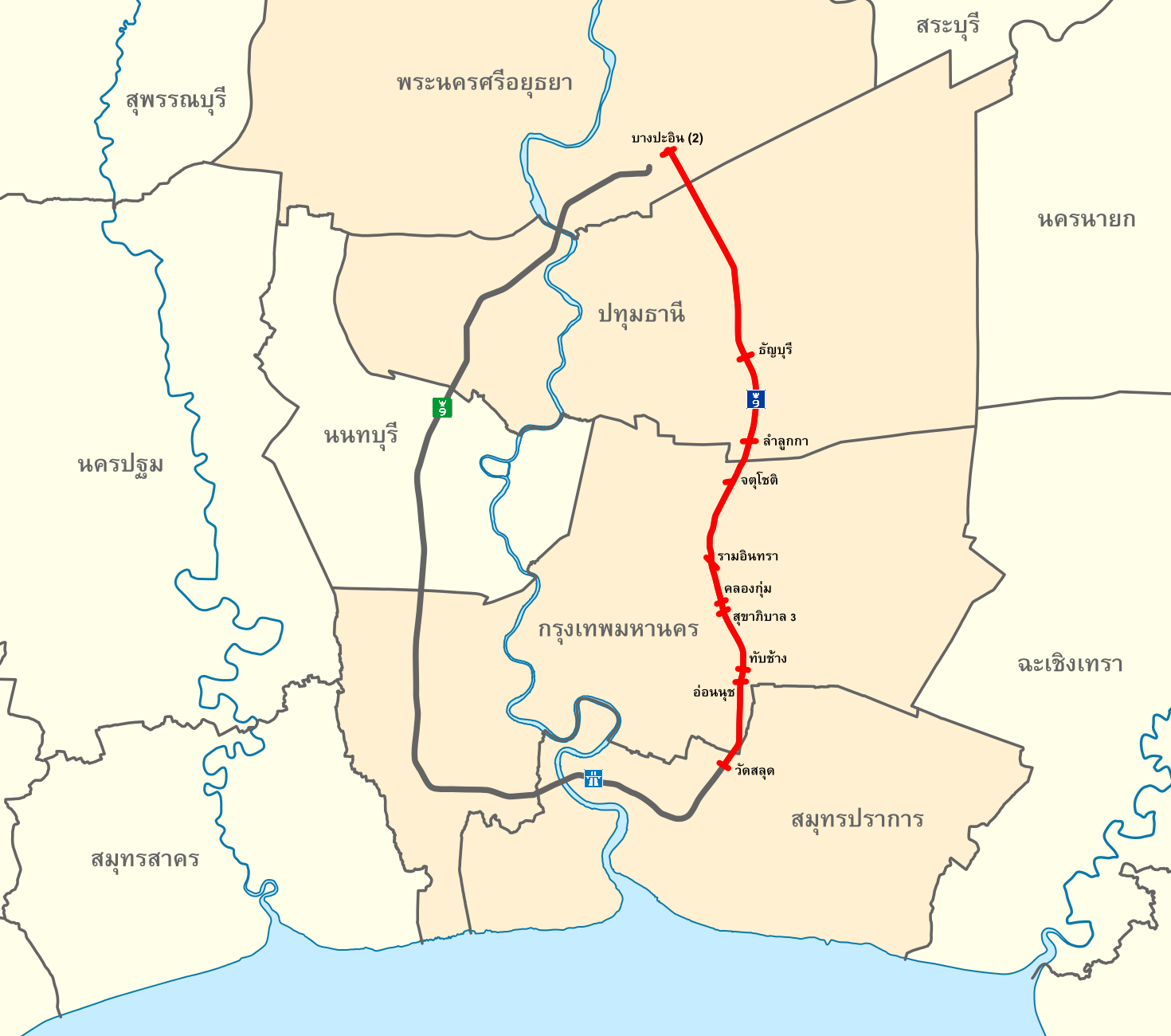 Bangkok Eastern Outer Ring Road, with the names of interchanges.